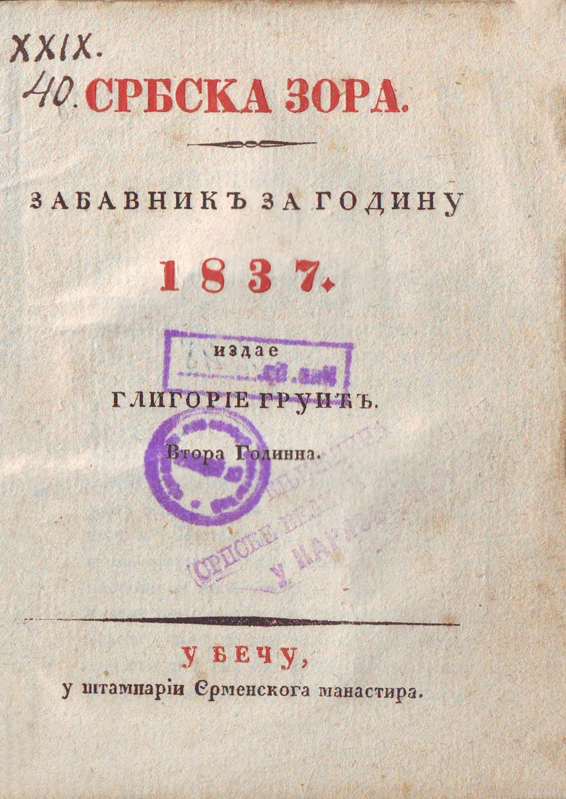 Cover of the 1837 edition of the Zabavnik Srbska zora (Zabavnik Serbian dawn). Srpski (latinica): Naslovna strana izdanja Zabavnika Srbska zora za 1837. godinu.